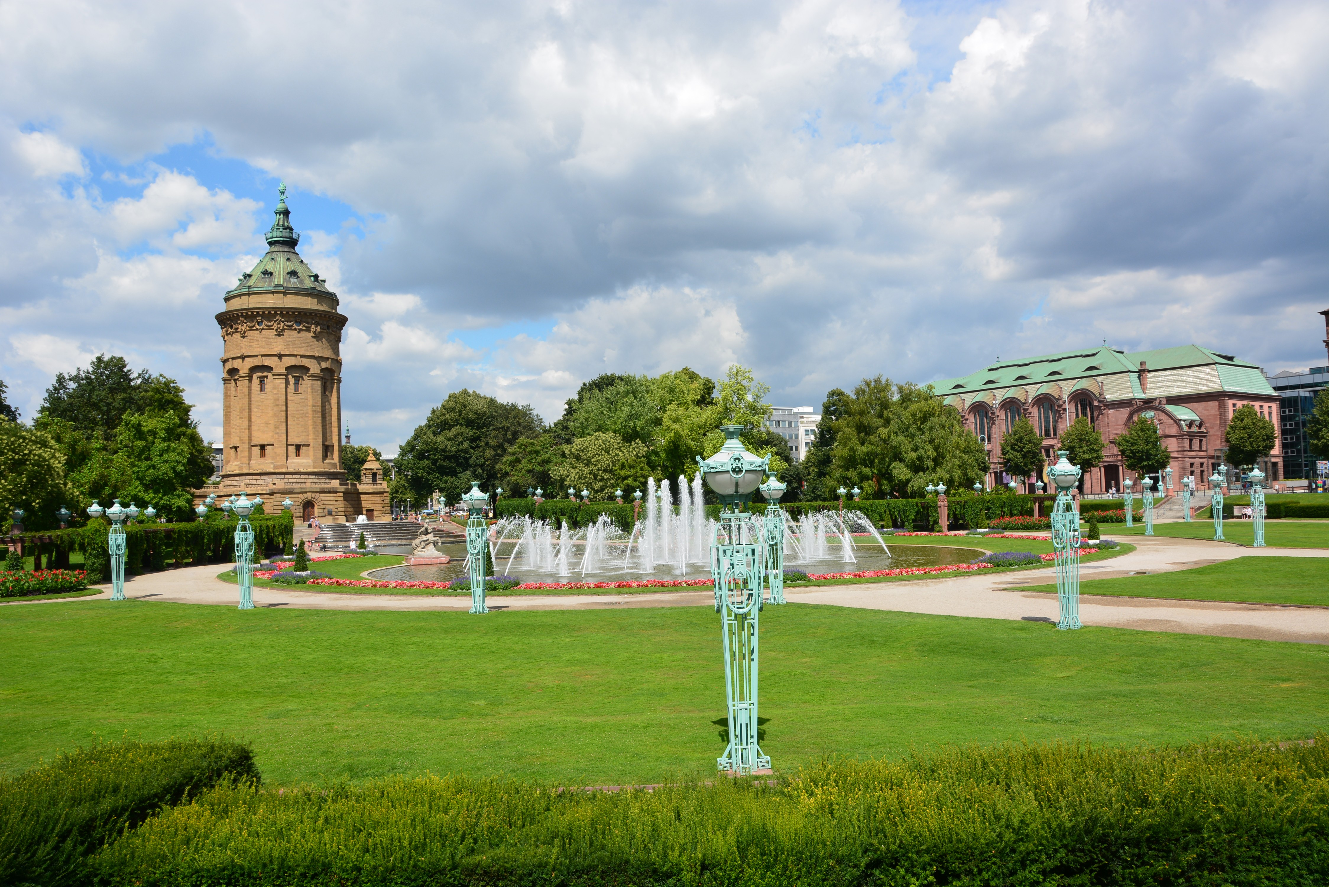 Watertower of Mannheim (Germany)